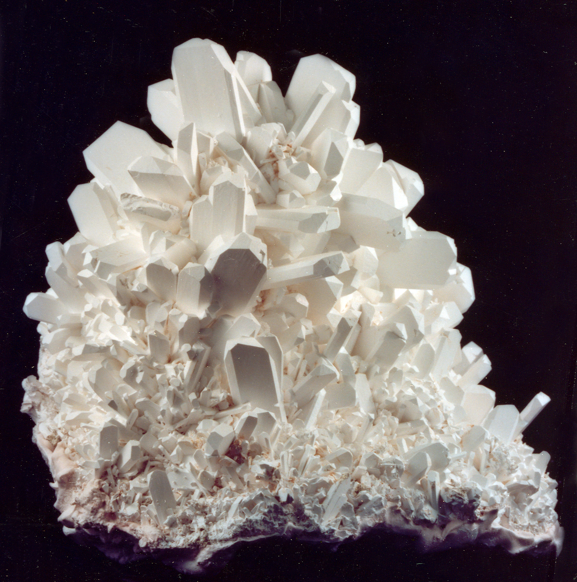 Tincalconite (after borax) - Locality: Boron, California - Bureau of Mines, Mineral Specimens C\01733